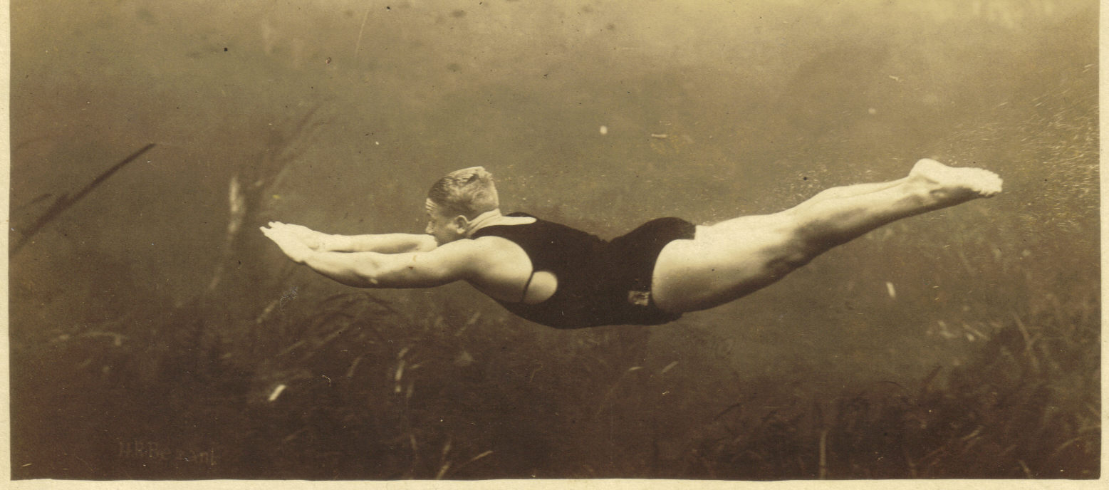 Newt Perry Under Water - scanned image of origional photo.